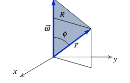 Vetores velocidade angular e posição.